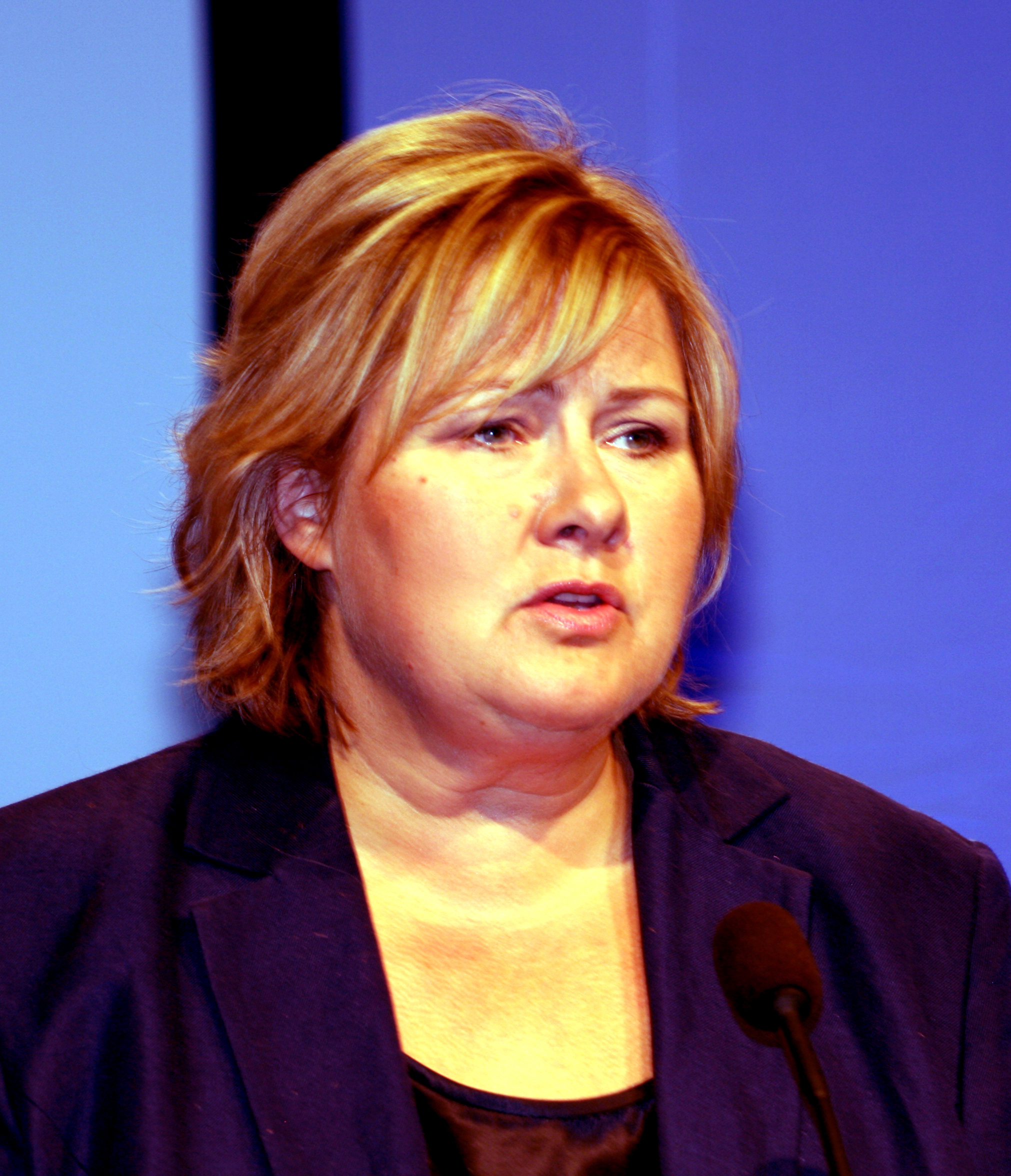 Erna Solberg at the 2009 party conference of the Conservative Party of Norway.